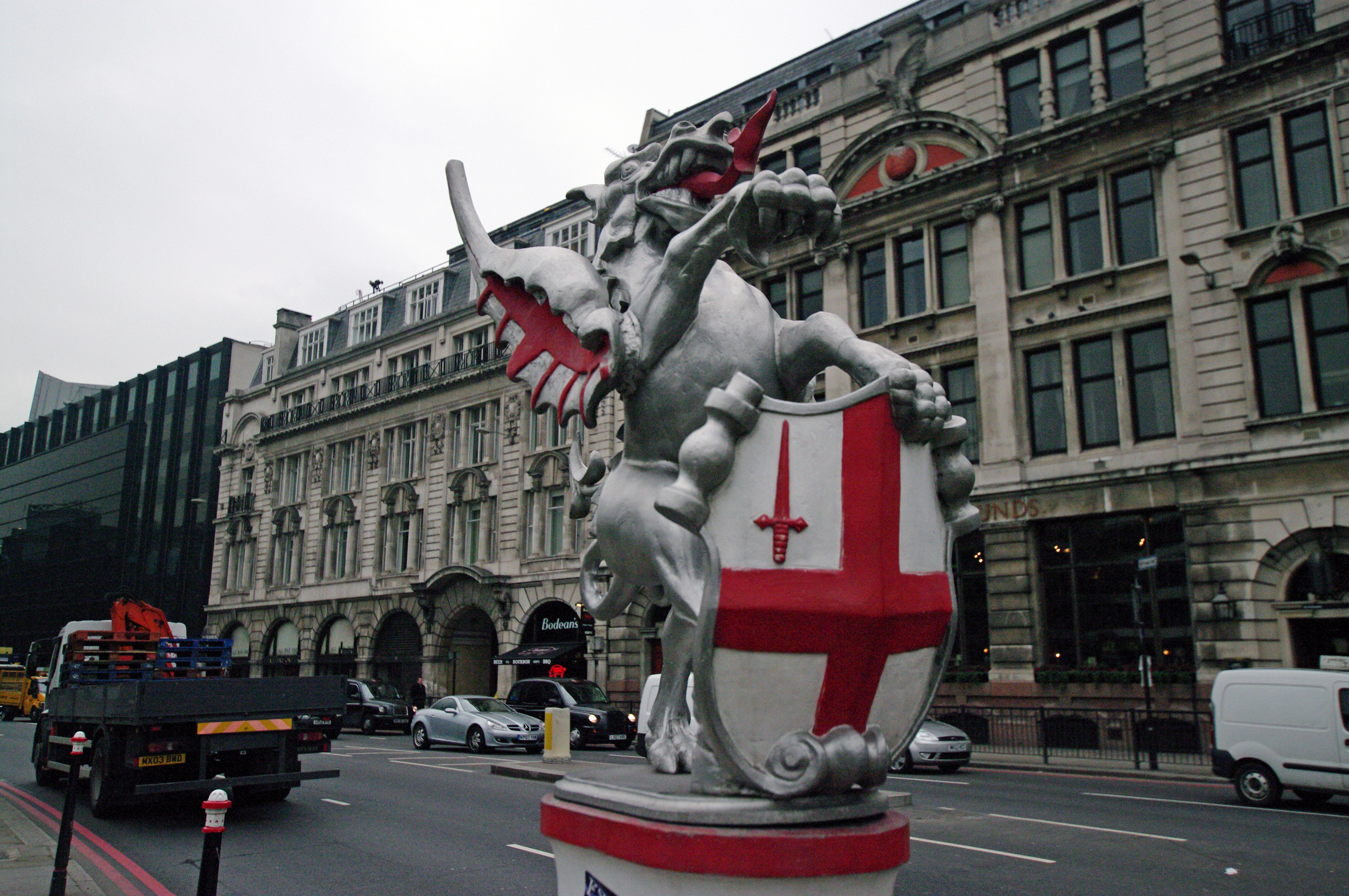 Griffin marking the border of the City of London close to the Tower in Byward Street